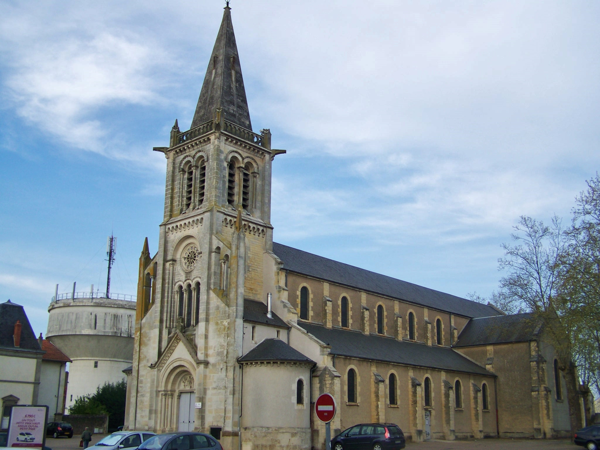 Sight of the église Saint-Louis church of Fourchambault near Nevers in Nièvre, France.